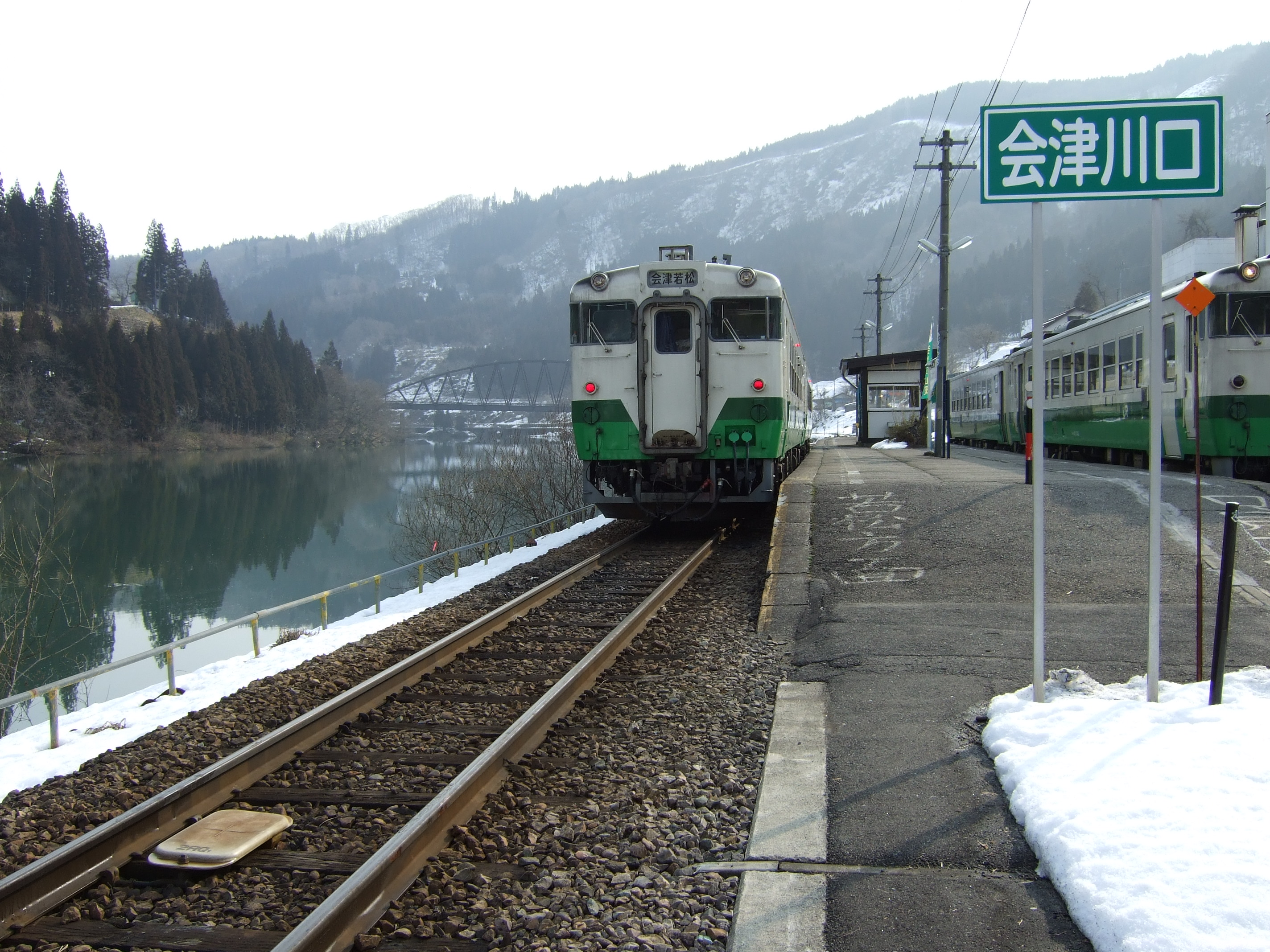 Aizu-Kawaguchi Station on the Tadami Line in Fukushima prefecture, JapanFujifilm FinePix F31fd